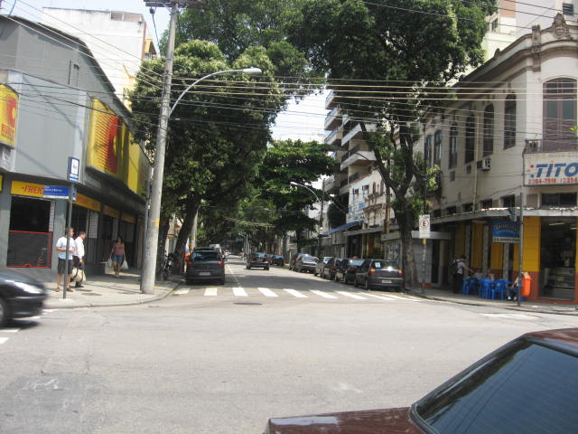 Afonso Pena, Street, Tijuca, Rio de Janeiro, Brazil